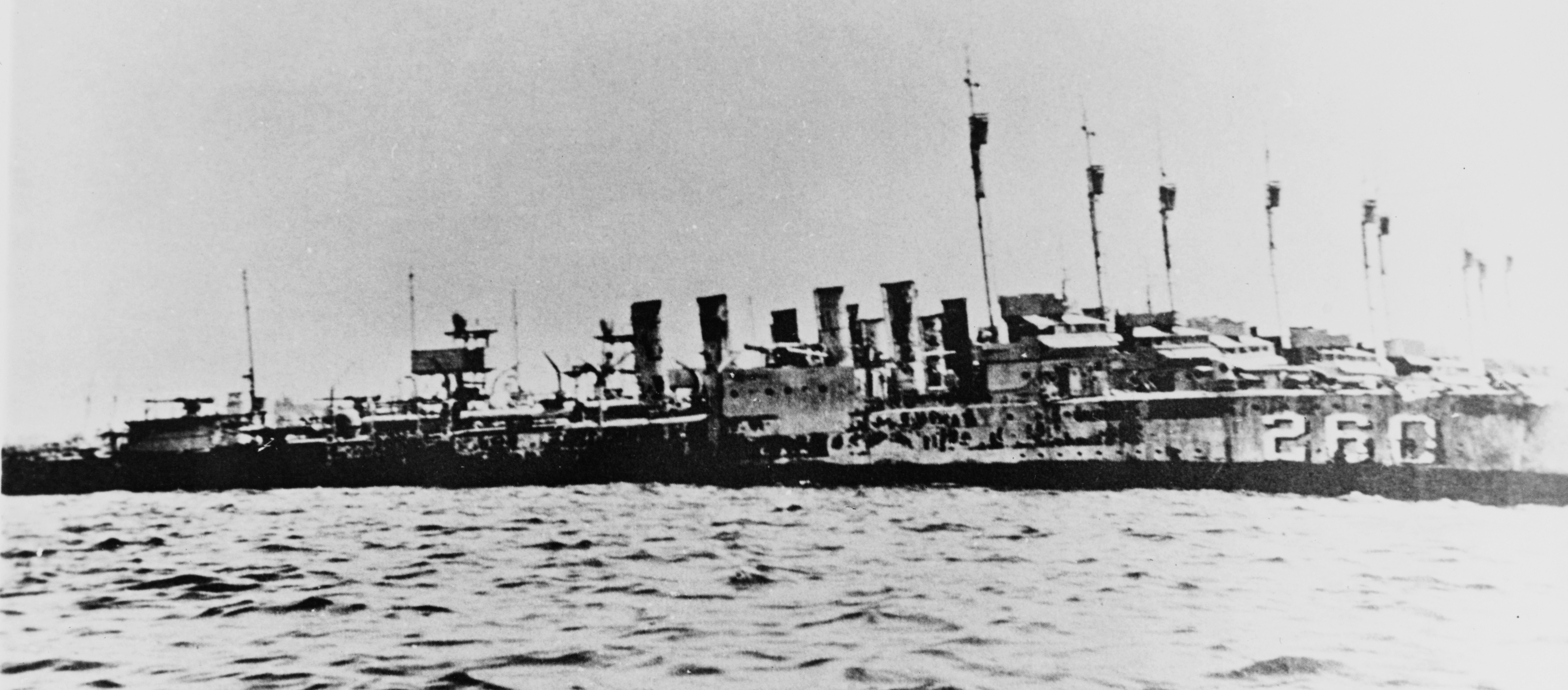 The U.S. Navy destroyer USS Gillis (DD-260) laid up at San Diego, California (USA), circa in 1929. Note the ship's rusty condition.